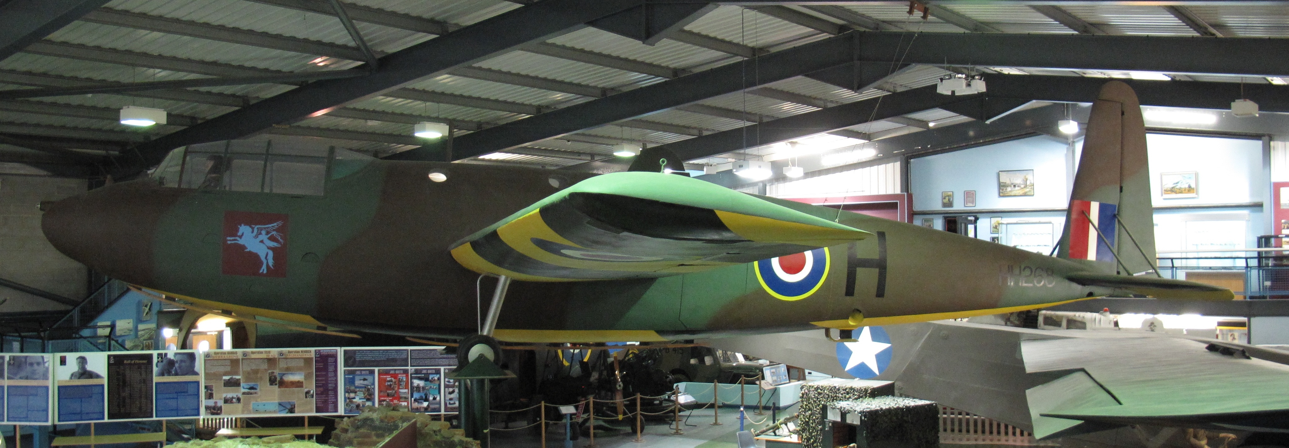 Photo of a Hotspur glider taken at the museum of army flying